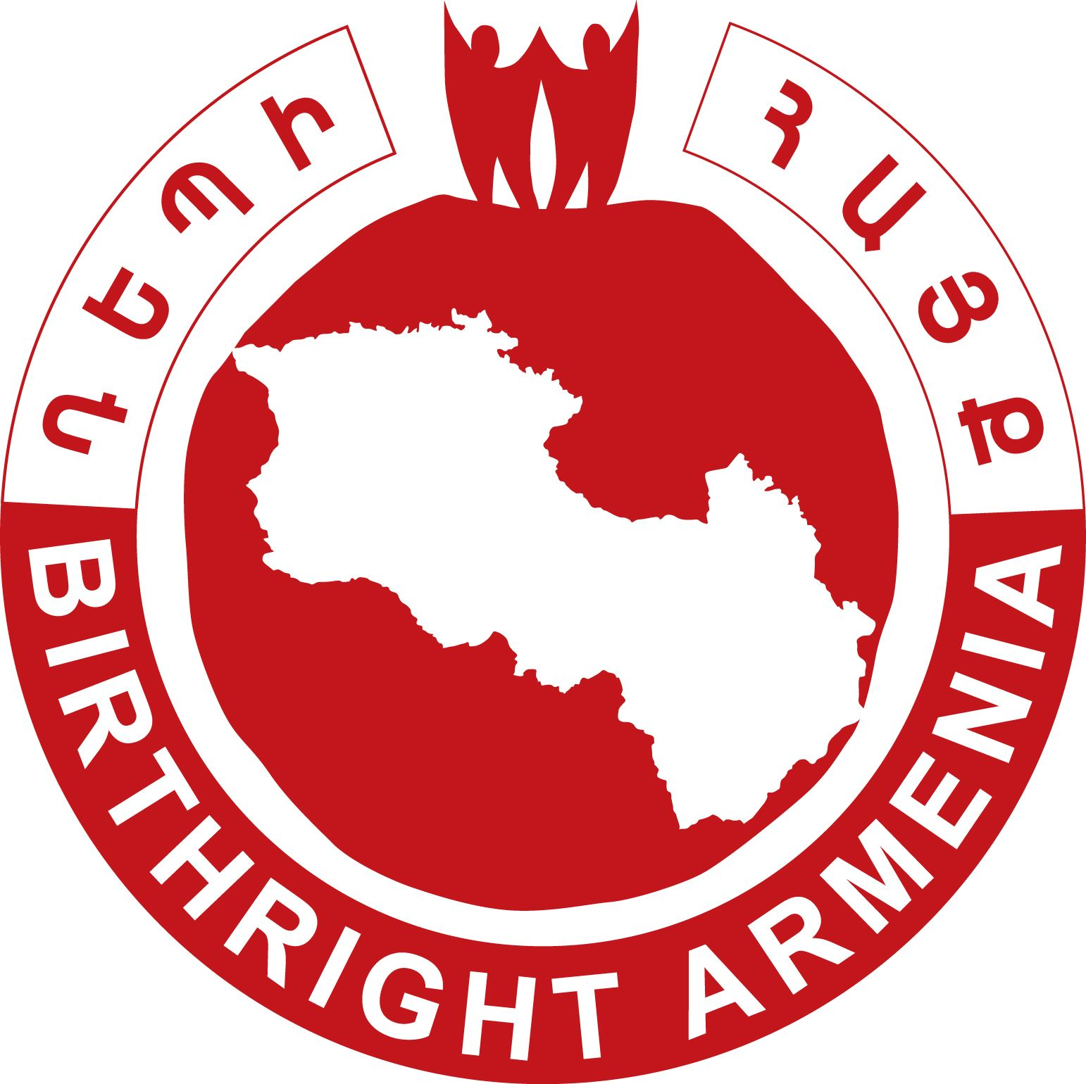 Официальное лого организации.